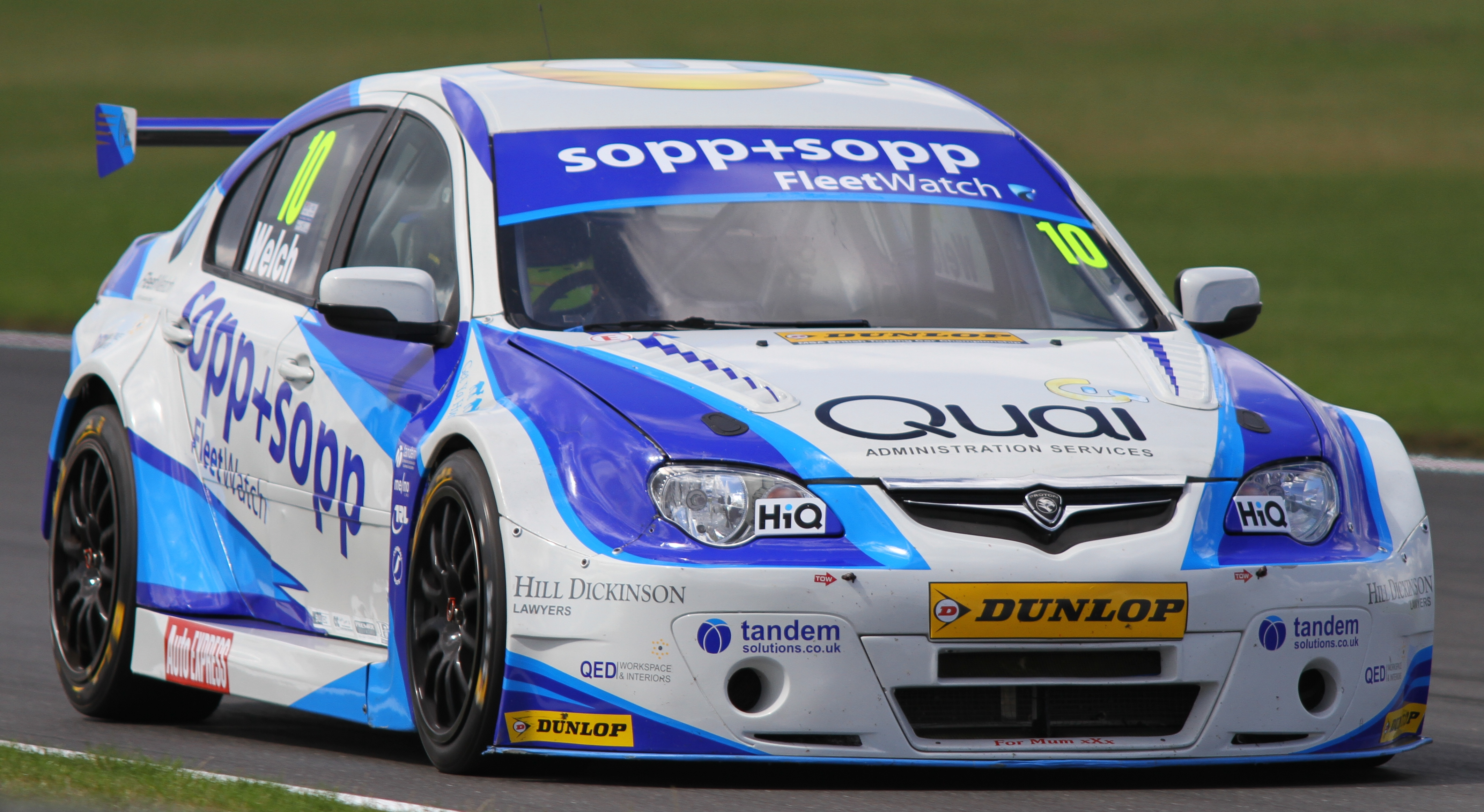 Welch Motorsport - Sopp+Sopp, Daniel Welch, Proton Persona NGTC, Snetterton, England.